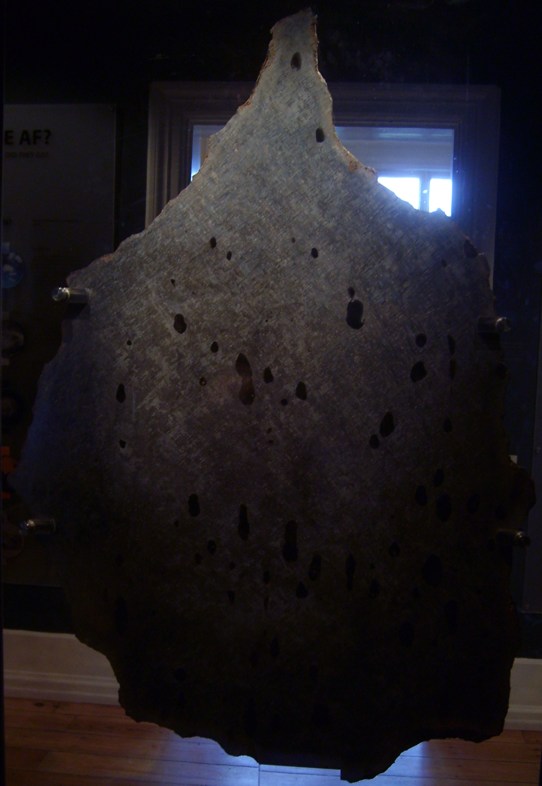 Slice of Agpalilik in the Geological Museum in Copenhagen